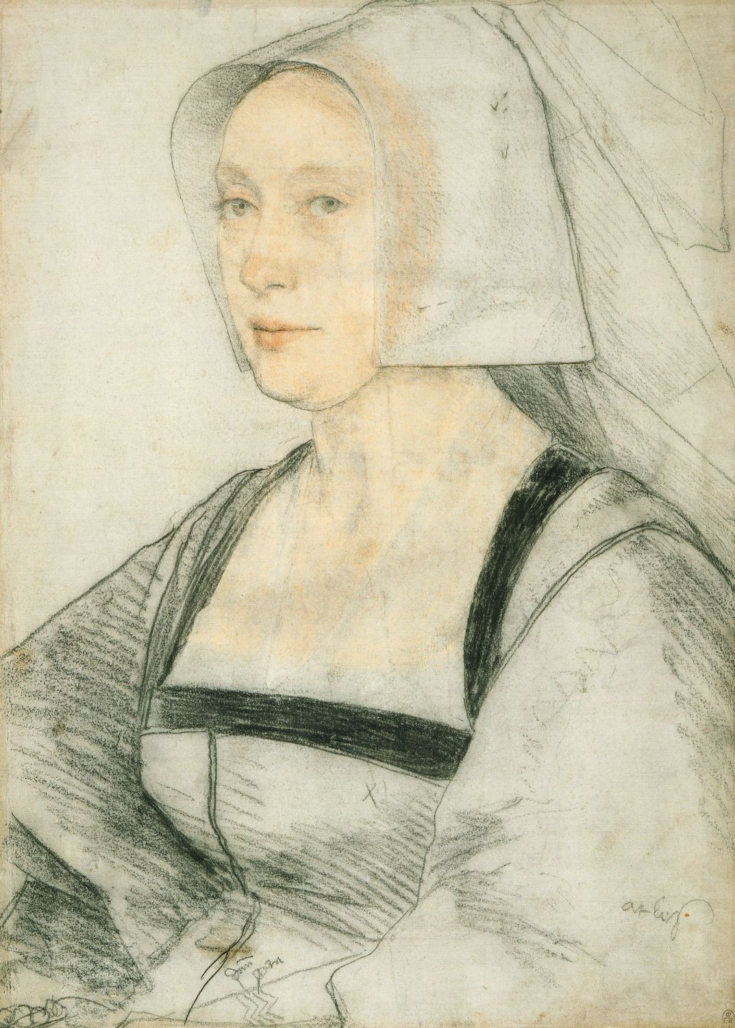 Portrait of an Unknown Woman. Black and coloured chalks, with brush and water, on unprimed paper, 40.5 × 29.2 cm, Royal Collection, Windsor Castle. The drawing is reinforced about the eyes, chin, and mouth, and is rubbed, but it is otherwise in fair condition. It comes from Holbein's first visit to England between 1526 and 1528. Reference K. T. Parker, The Drawings of Hans Holbein at Windsor Castle, Oxford: Phaidon, 1945, OCLC 822974, p. 38.